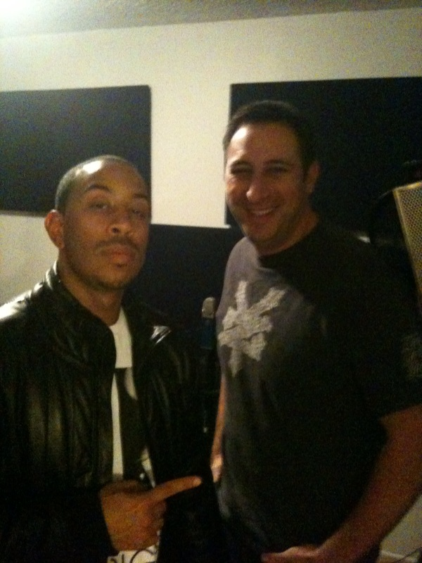 Ludacris and Paul Lapinski